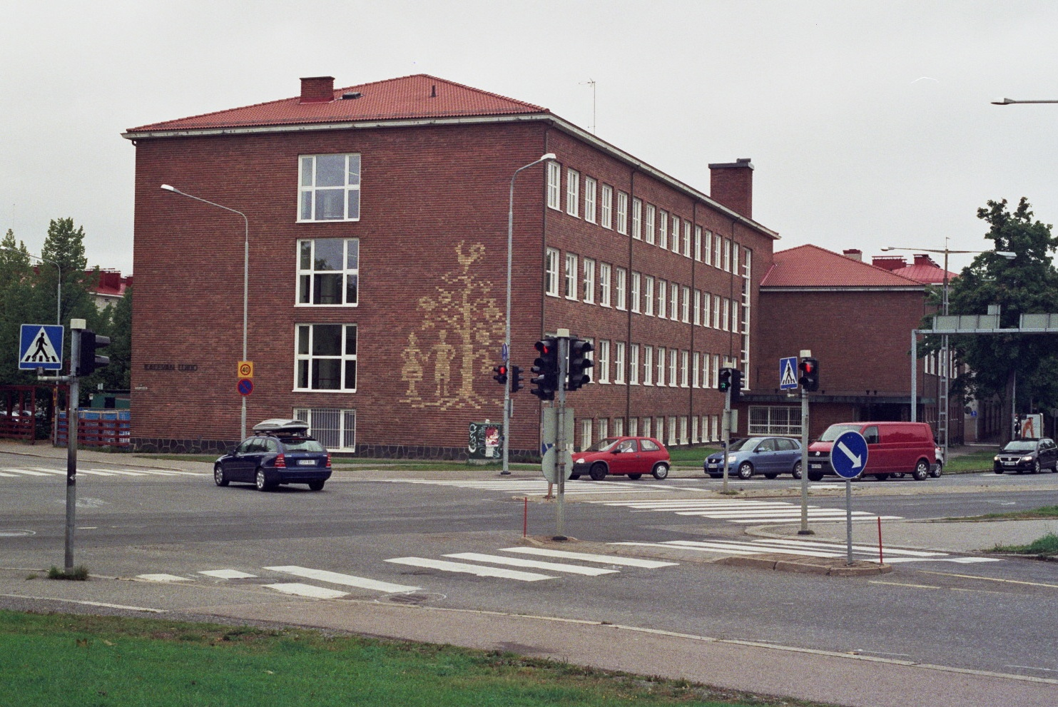 Kaleva gymnasium/high school in the Kaleva district of Tampere, Finland.